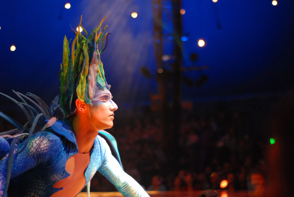 This portrait was taken without realising that no camera is allowed. The costume and make-up are certainly amazing.